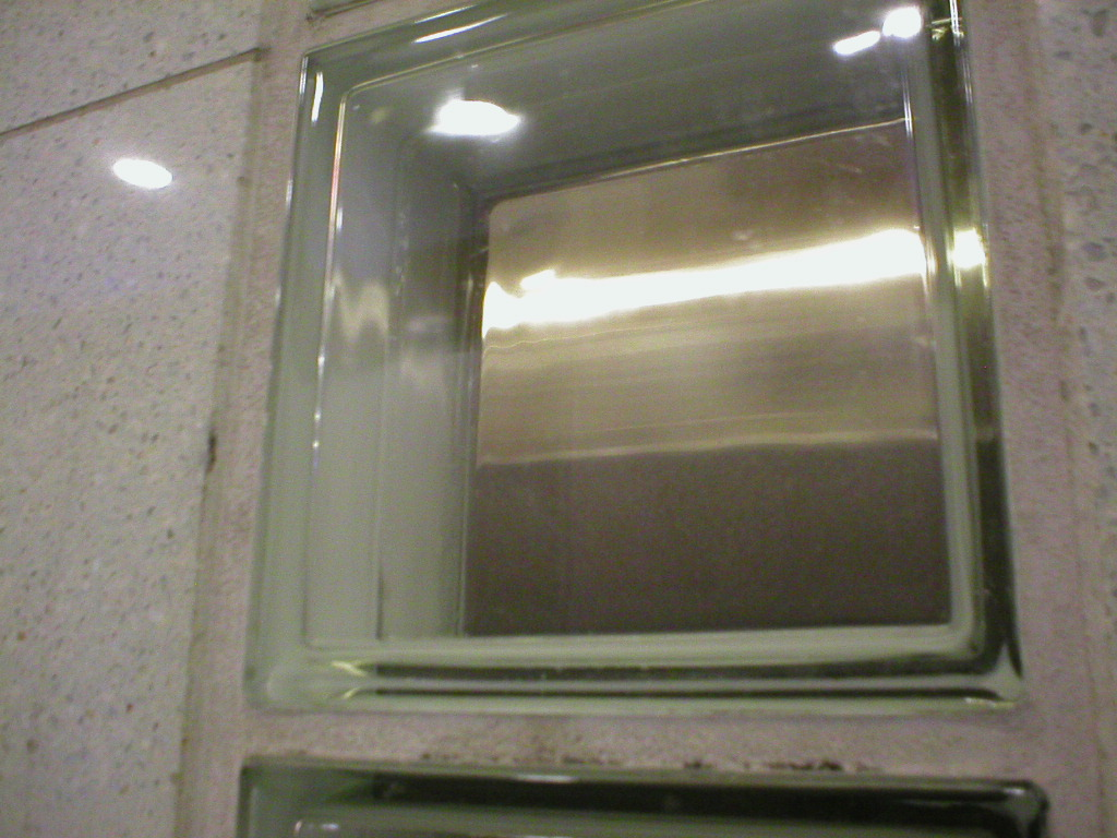 A window of the Mäusetunnel (German for mice tunnel), a link between Berlin U-Bahn lines U2 and U6